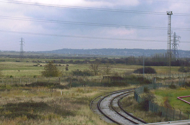 Shell Haven Railway Line